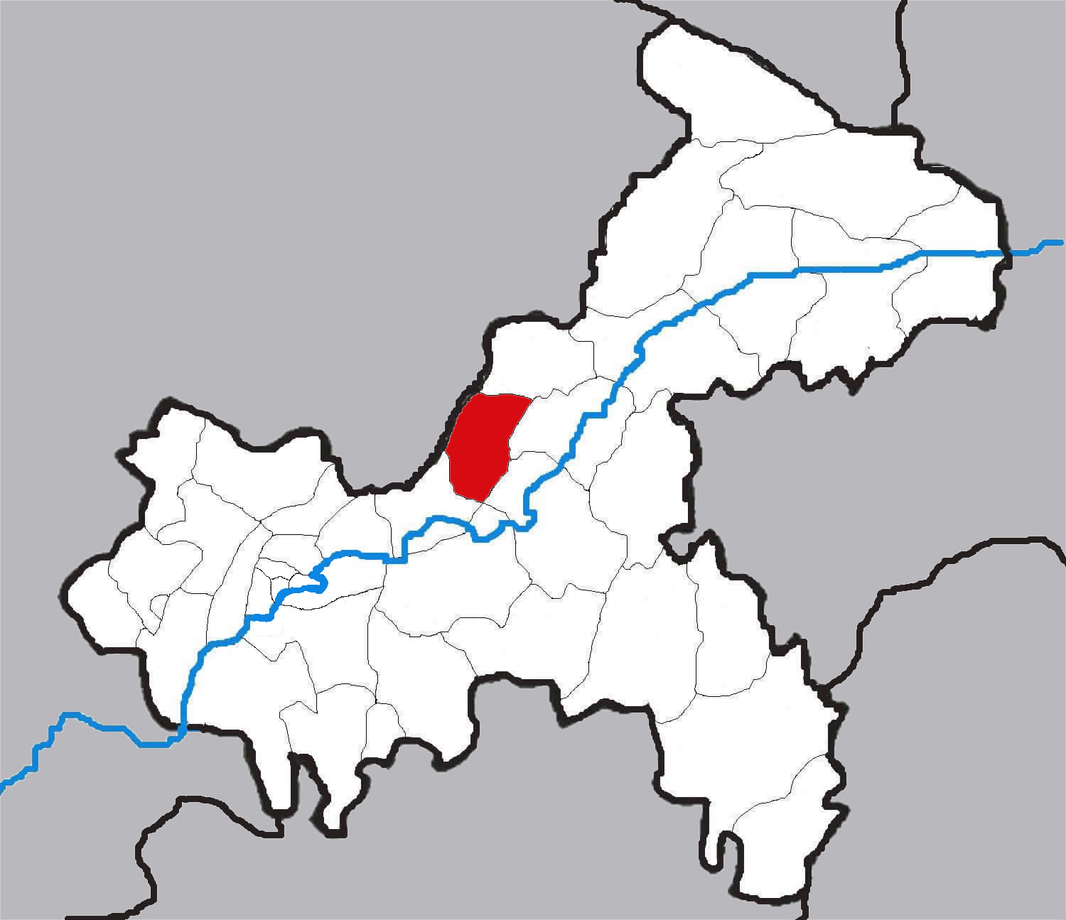 Administration maps of Chongqing, China